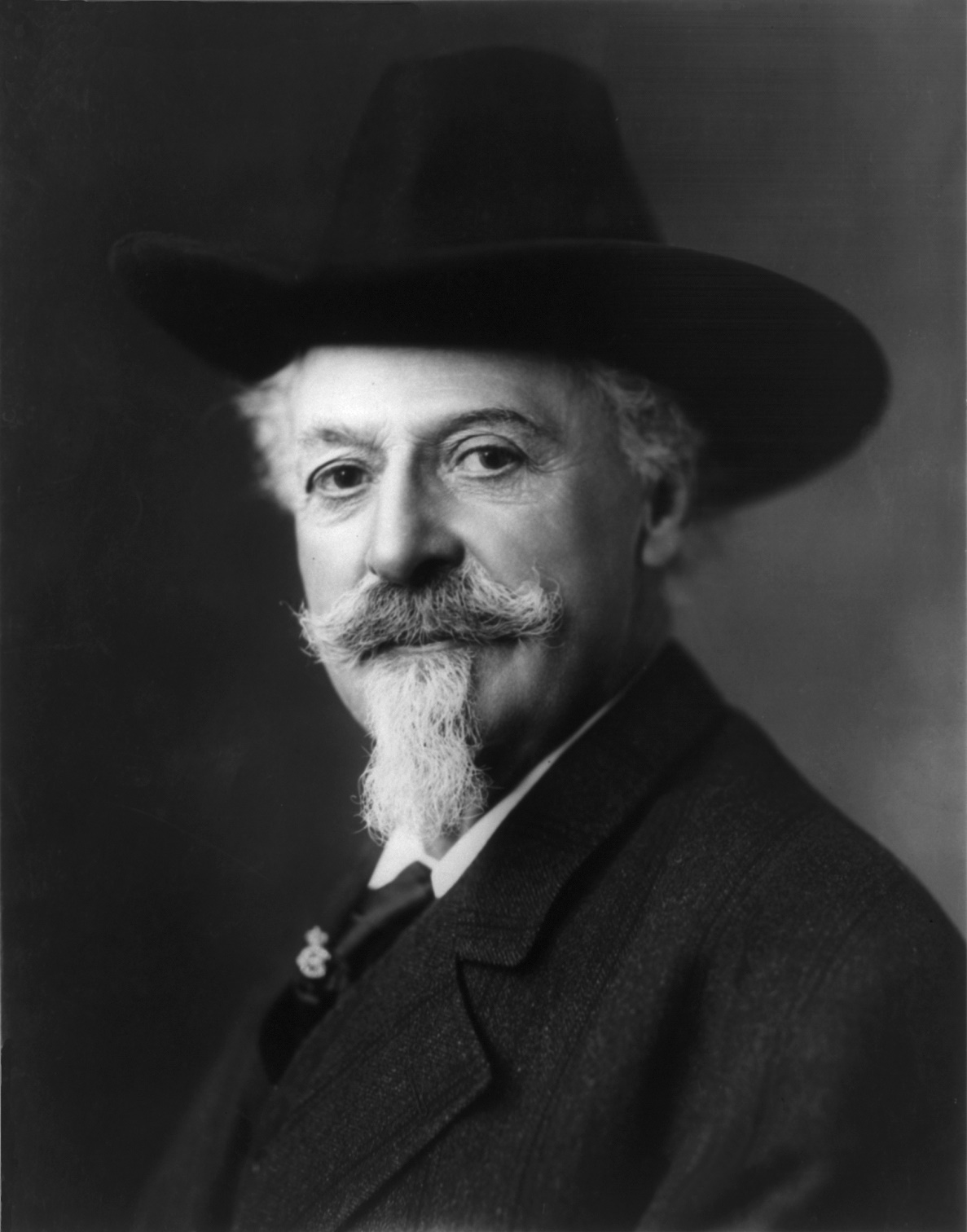 Portrait of William F. Cody (aka) "Buffalo Bill".